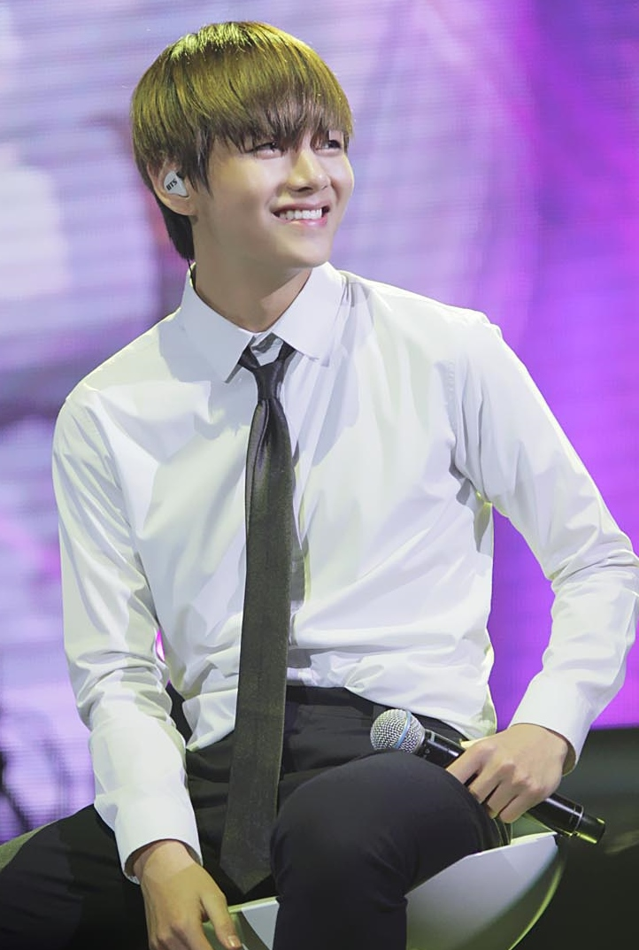 V (Kim Tae-hyung) performing at the TRB in Taipei on March 8, 2015.